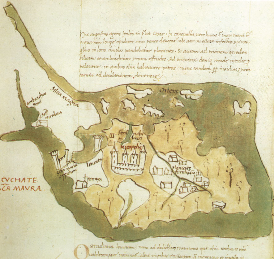 Cristoforo Buondelmonti, Liber Insularum Archipelagi (1420), Lefkada island, Ionian Sea